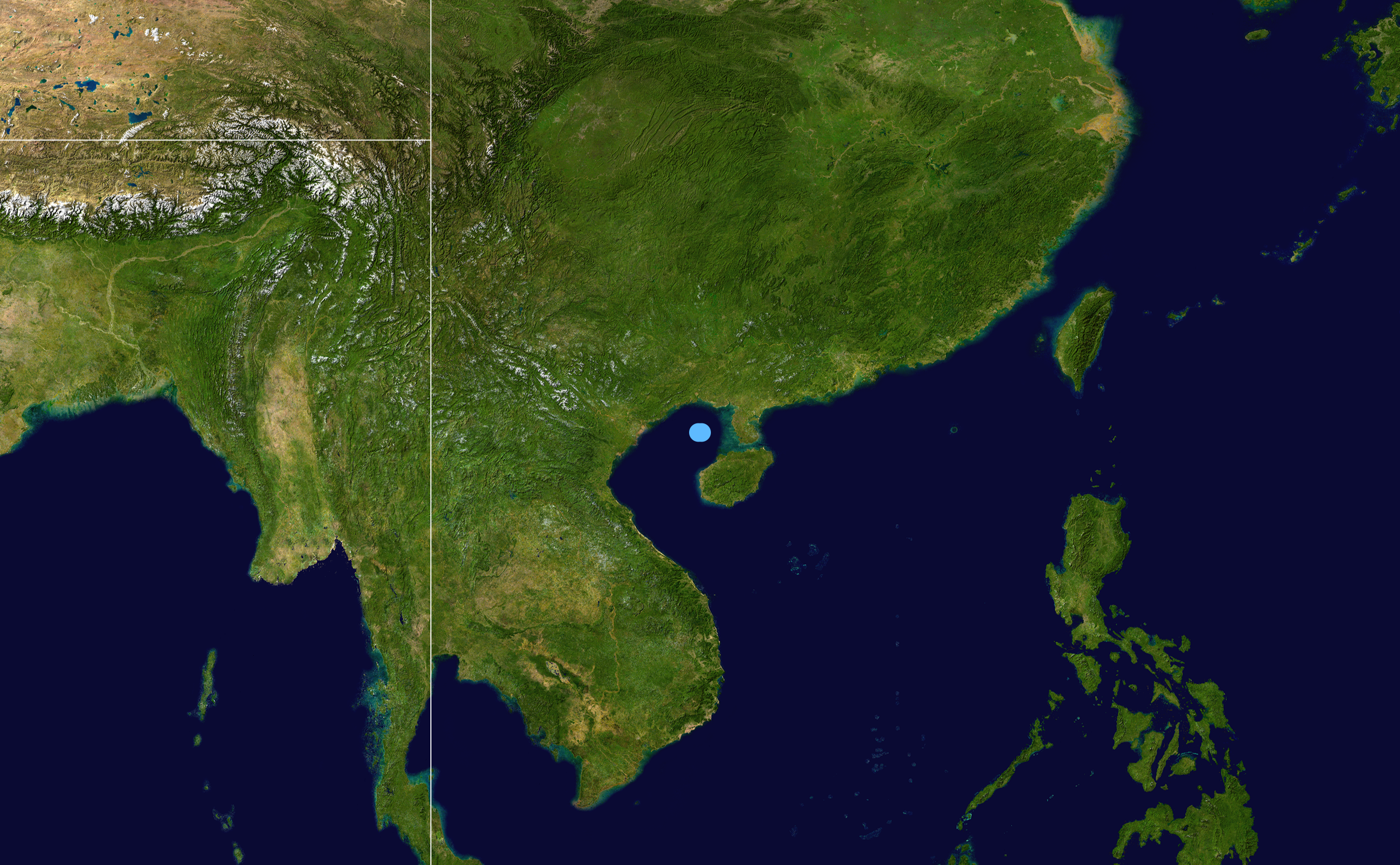 Track map of JMA Tropical Depression Seventeen of the 2016 Pacific typhoon season. The points show the location of the storm at 6-hour intervals. The colour represents the storm's maximum sustained wind speeds as classified in the Saffir–Simpson scale (see below), and the shape of the data points represent the nature of the storm, according to the legend below. Saffir–Simpson scale Tropical depression≤38 mph≤62 km/h Category 3111–129 mph178–208 km/h Tropical storm39–73 mph63–118 km/h Category 4130–156 mph209–251 km/h Category 174–95 mph119–153 km/h Category 5≥157 mph≥252 km/h Category 296–110 mph154–177 km/h Unknown Storm type Tropical cyclone Subtropical cyclone Extratropical cyclone / Remnant low / Tropical disturbance / Monsoon depression